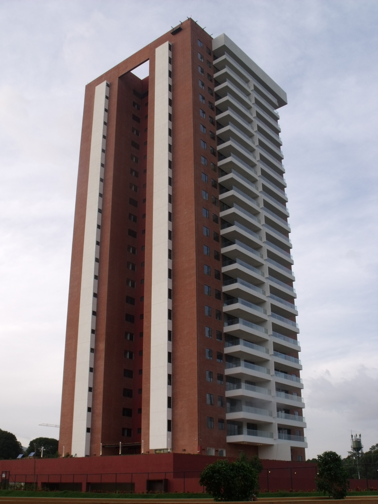 Apartment's tower, located near shopping center in San Salvador Multiplaza.